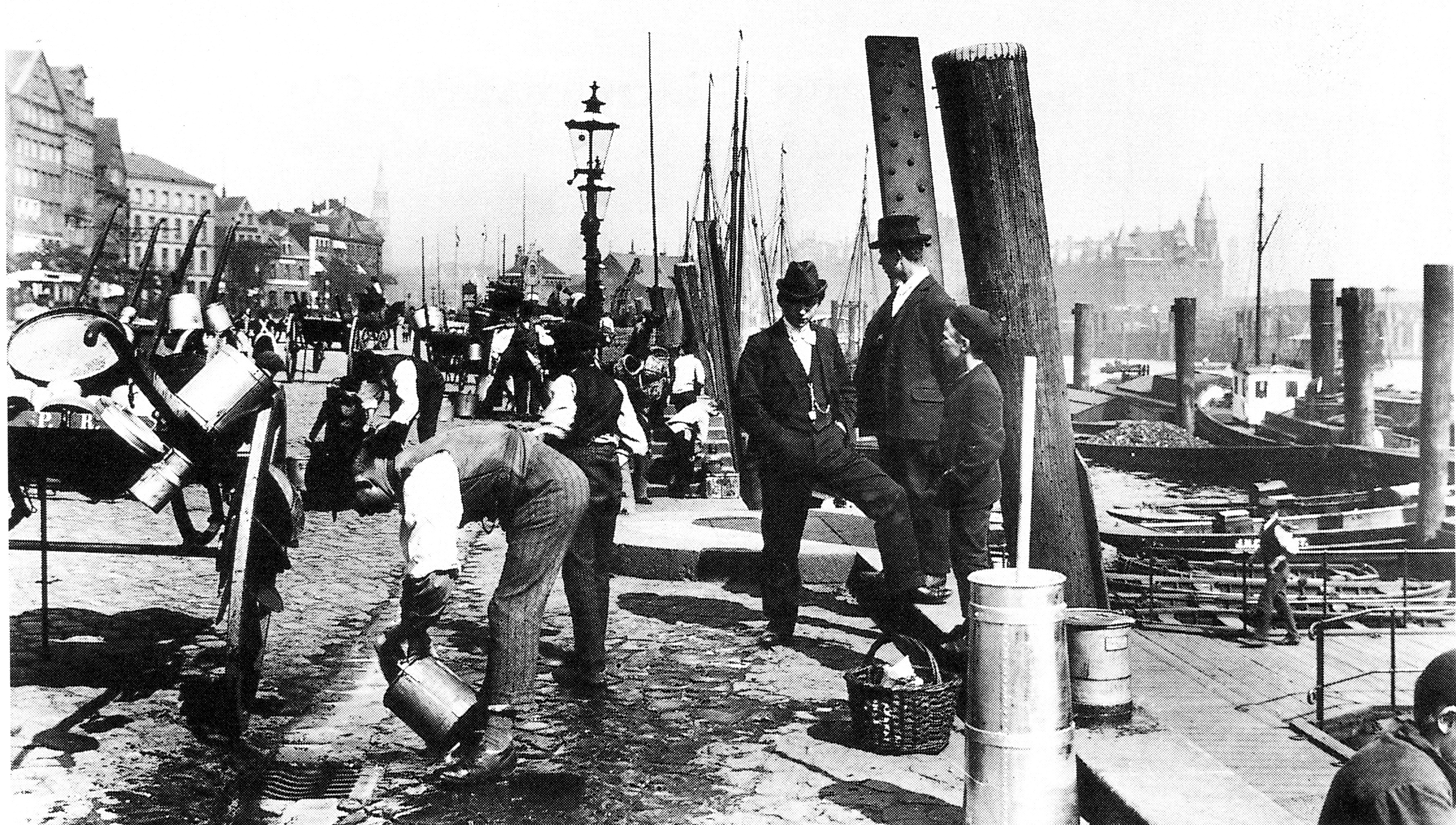 J. und H. Hamann: Milchleute beim Eimerwaschen im Hamburger Hafen 1899